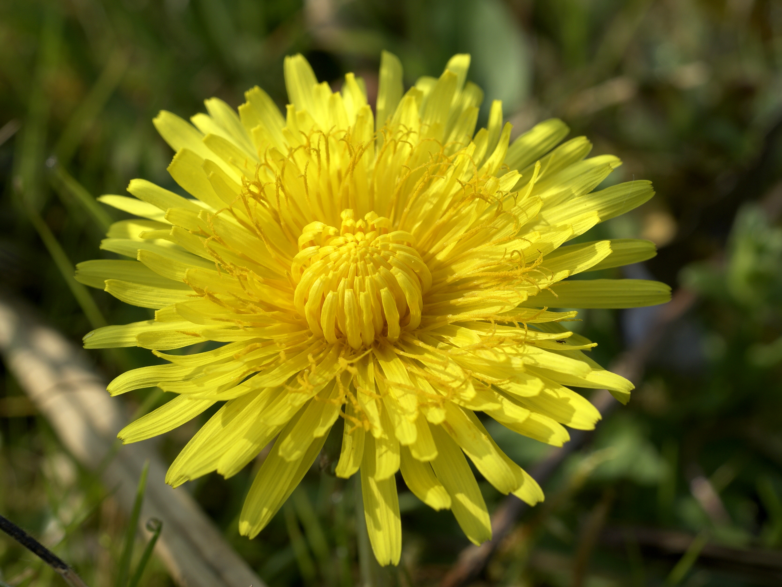 inflorescence, at the nature reserve 'Leiemeersen', Oostkamp - Belgium